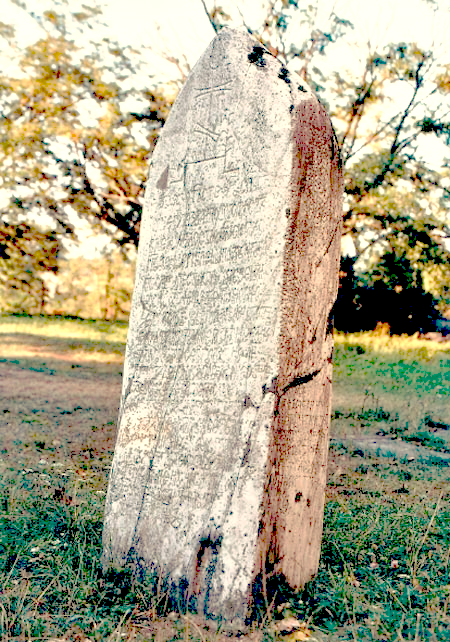 Marble colum at the place where Despot Stefan Lazarevic died 1427 in the courtyard of the church at Crkvinama, Mladenovac, Belgrade